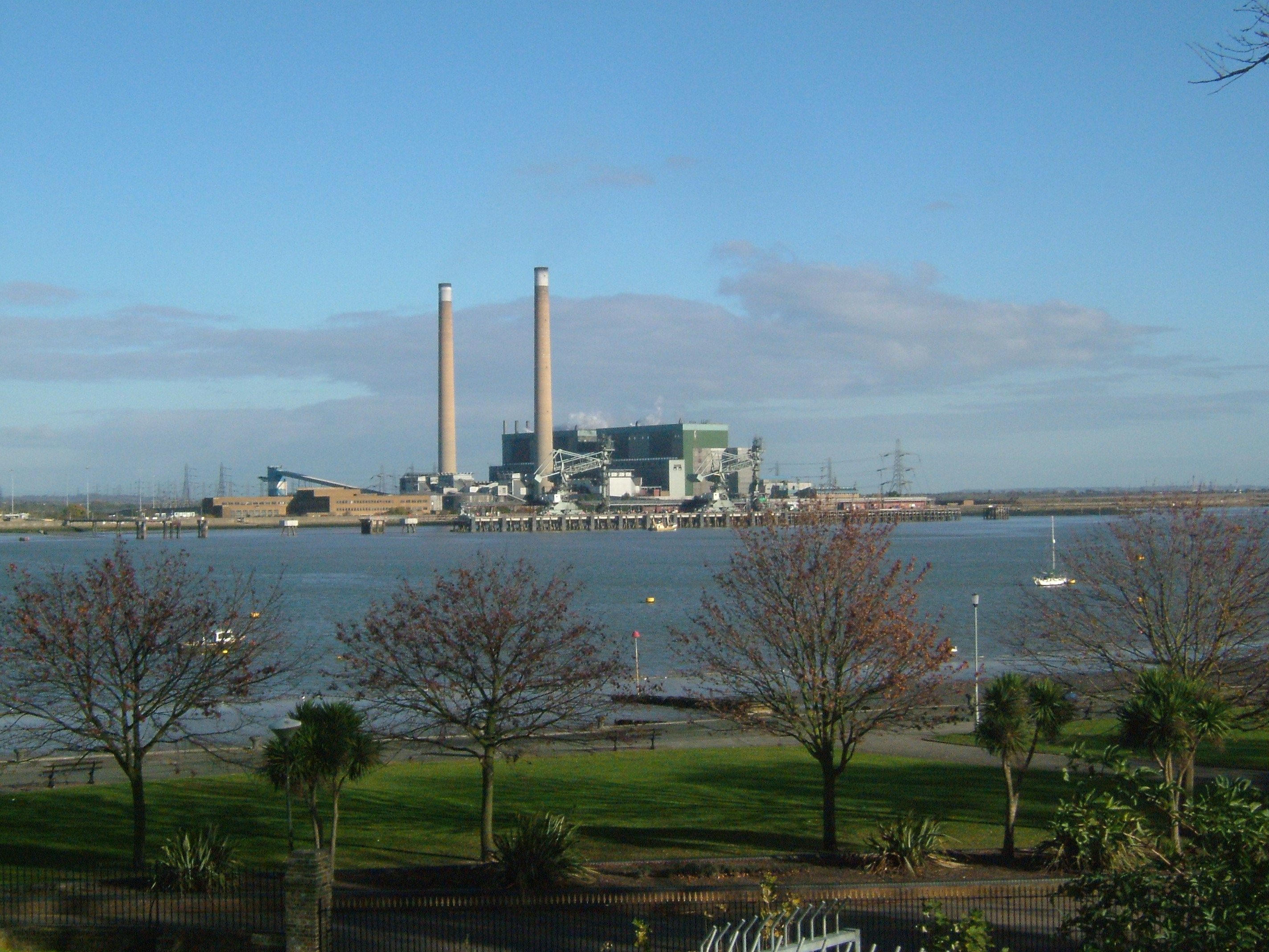 Gravesend is in North Kent, England on the River Thames. Tilbury Power Station from New Tavern Fort (18th C fort, rebuilt in 1870 and regunned in 1904. Looking over the Gravesend Reach of the River Thames, to the left if the power station is the Tilbury Fort.